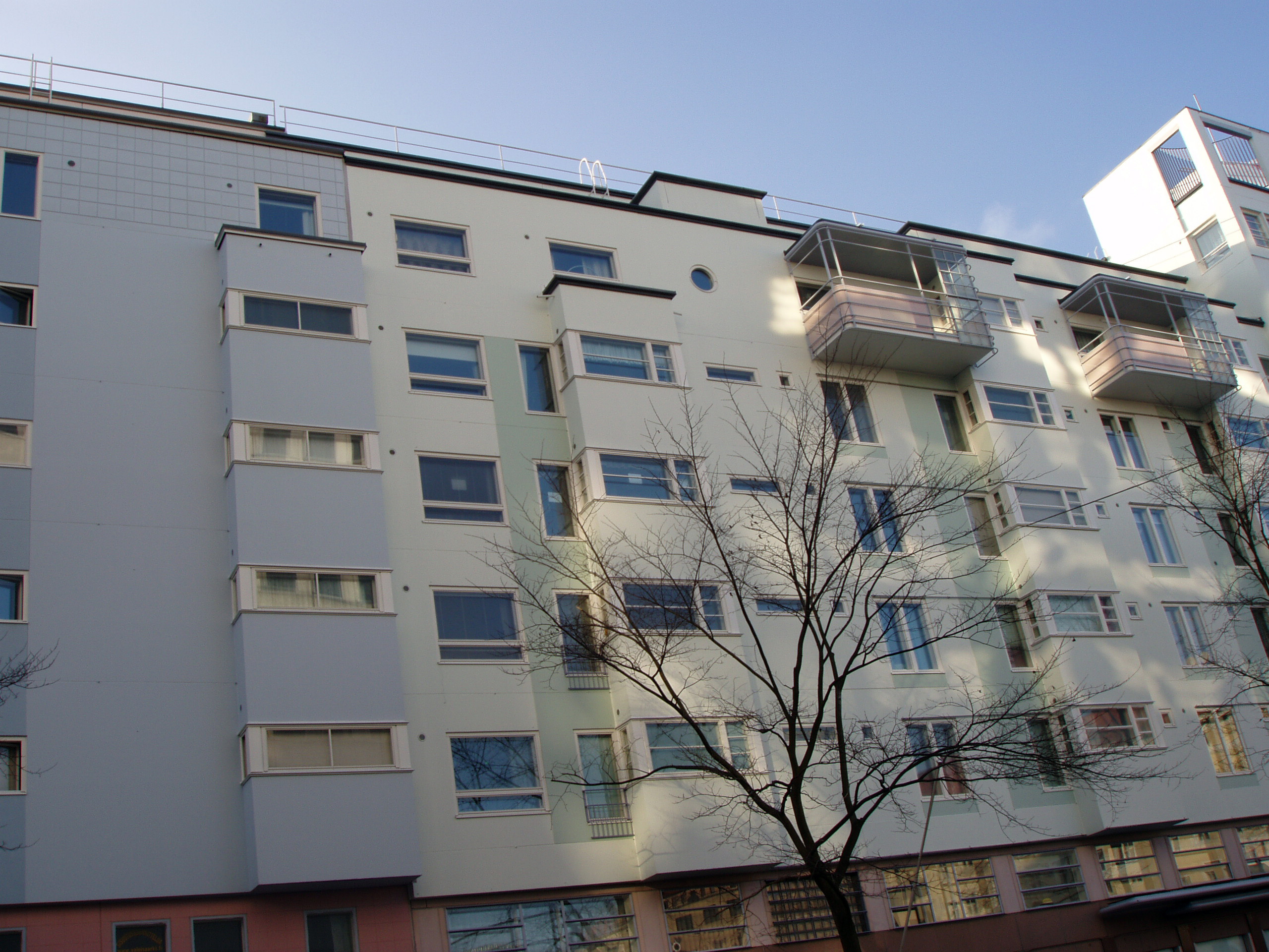 Kamppi housing area, Helsinki (mid 1980s), Eric Adlercreutz